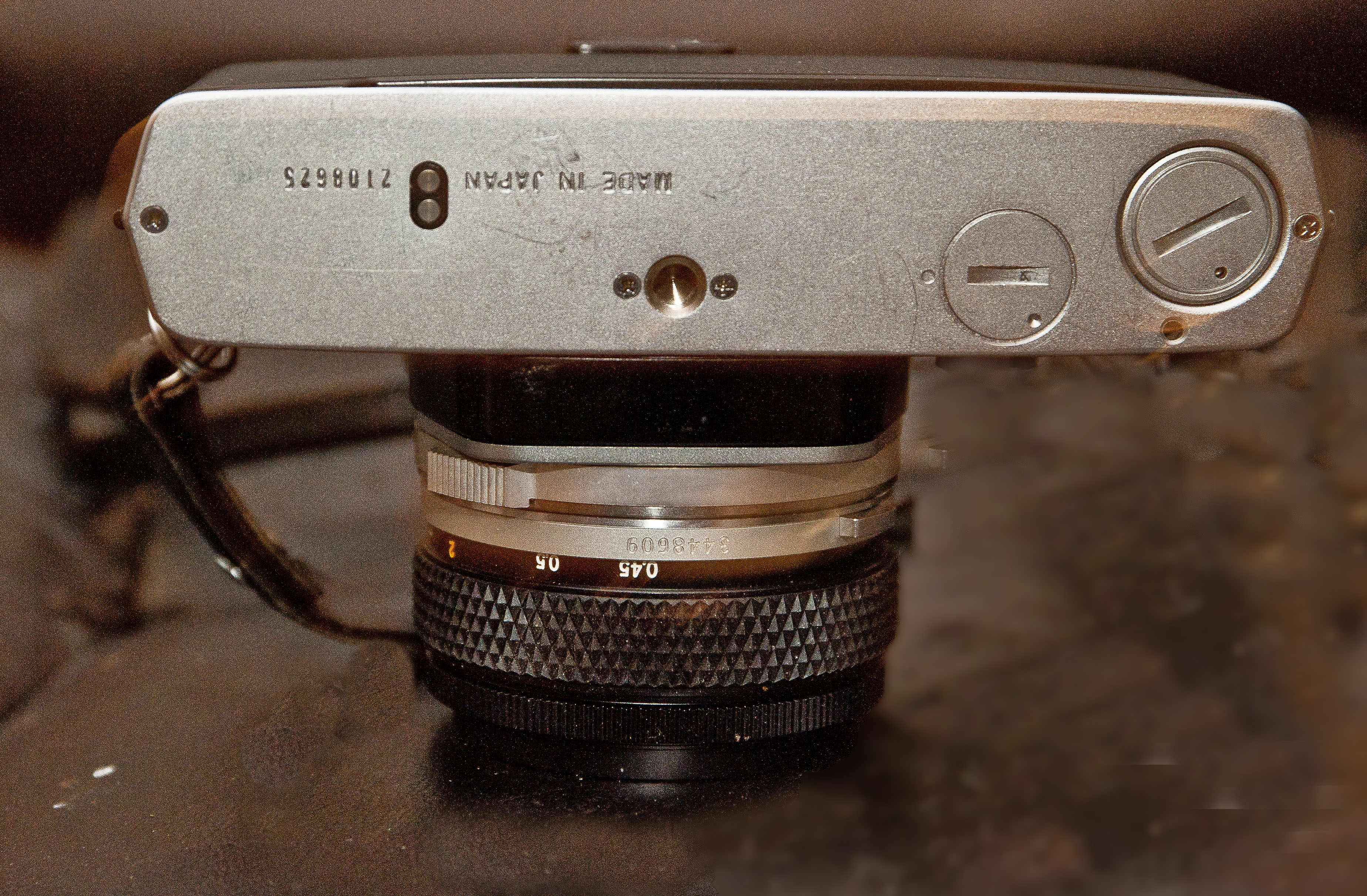 Olympus om1